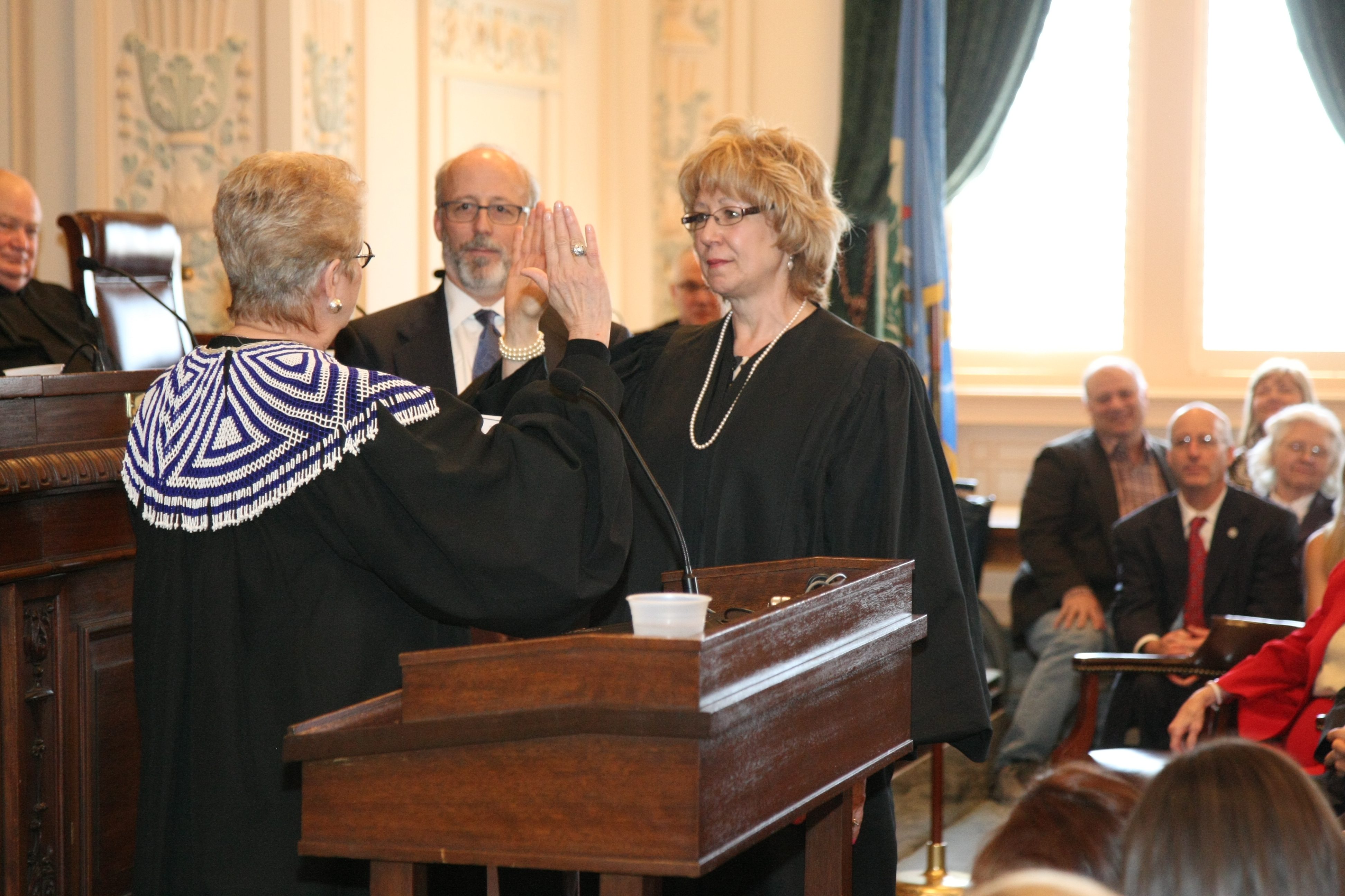 Swearing in of Oklahoma Supreme Court Justice Noma E. Gurich